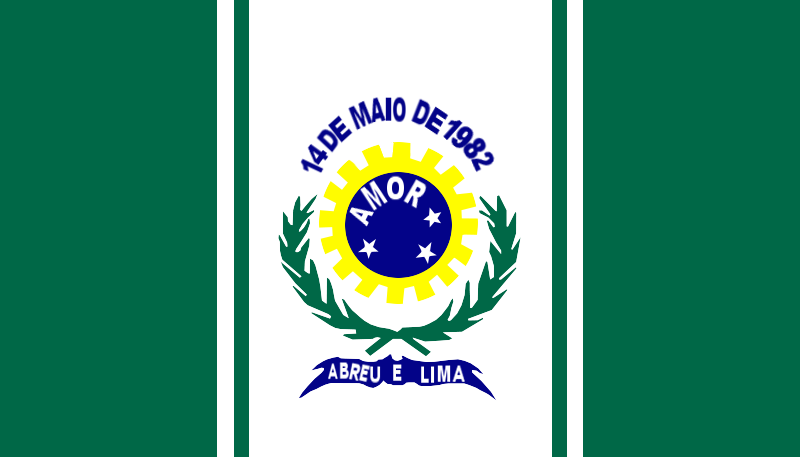 Abreu e Lima Flag